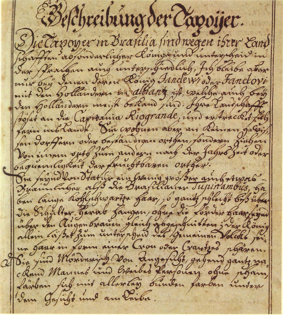 handwriting by Caspar Schmalkalden (c.1618-c.1668)